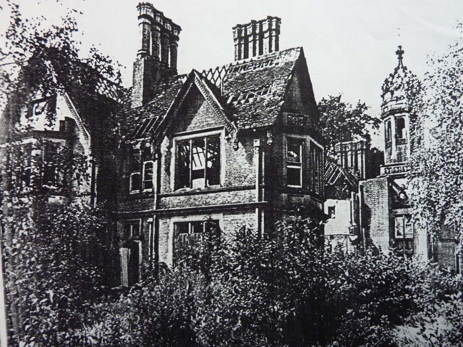 New Berry Hall in a state of dereliction